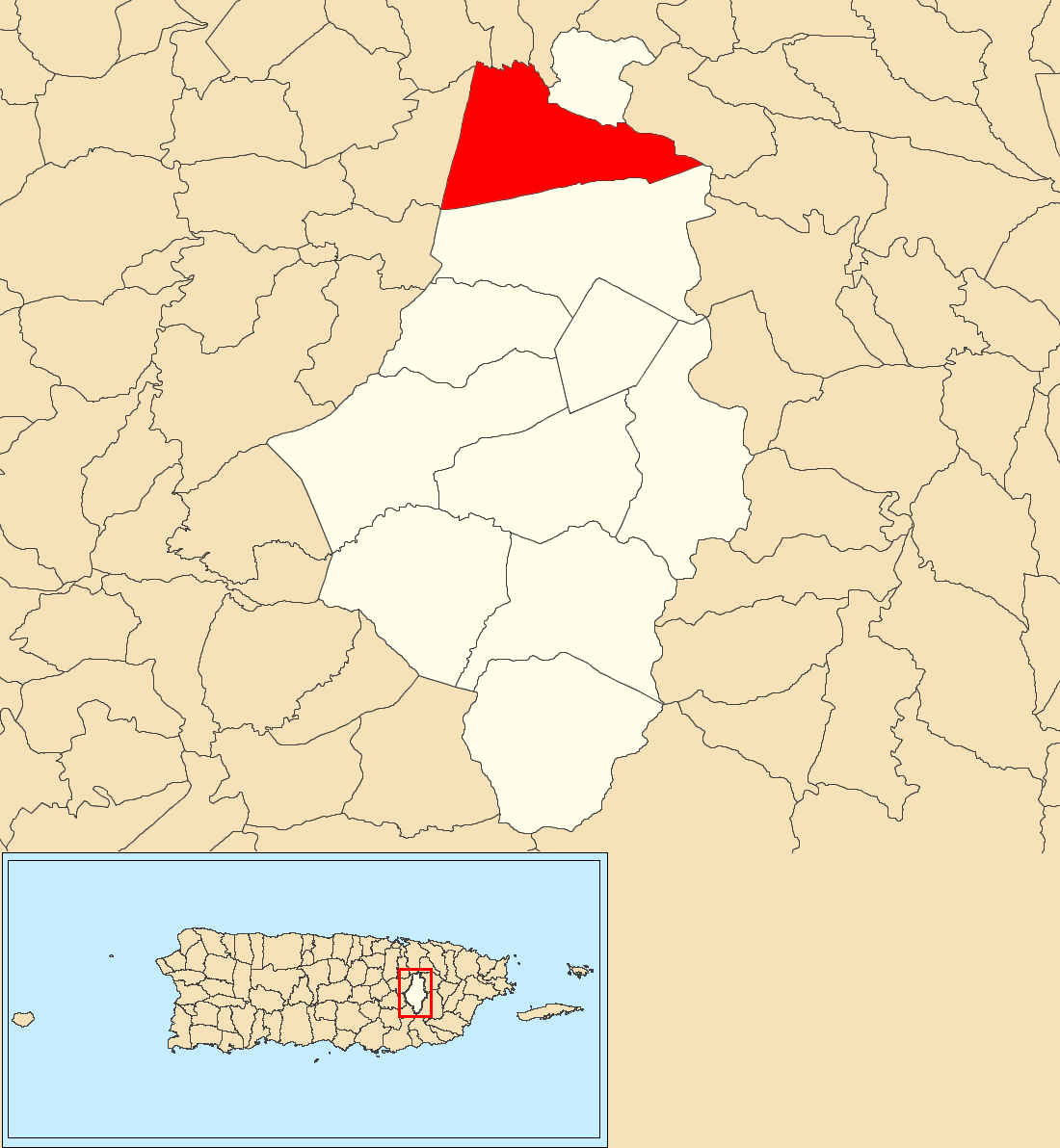 Río Cañas, Caguas, Puerto Rico locator map